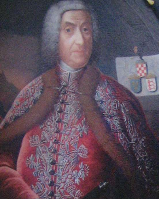 Croatian Nobleman Ivan V Draskovic